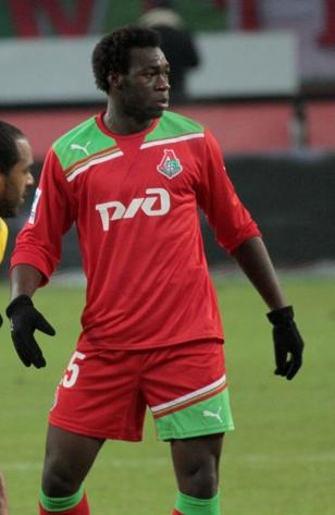 Felipe Caicedo playing for FC Lokomotiv Moscow in 2012.